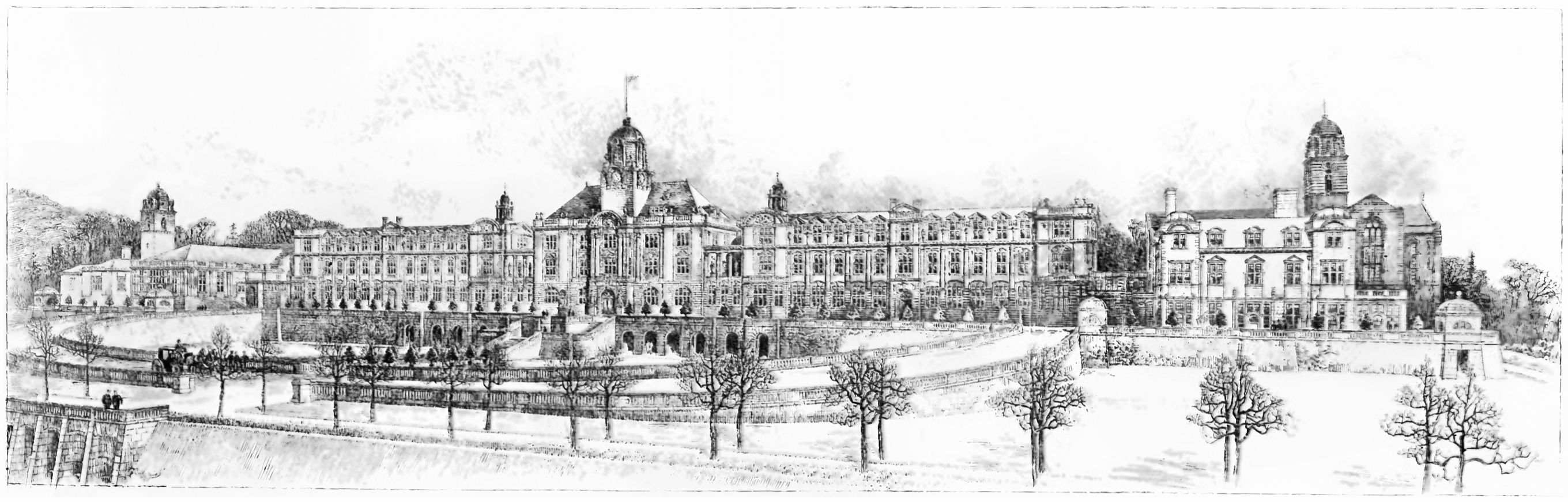 Drawing by Aston Webb, architect